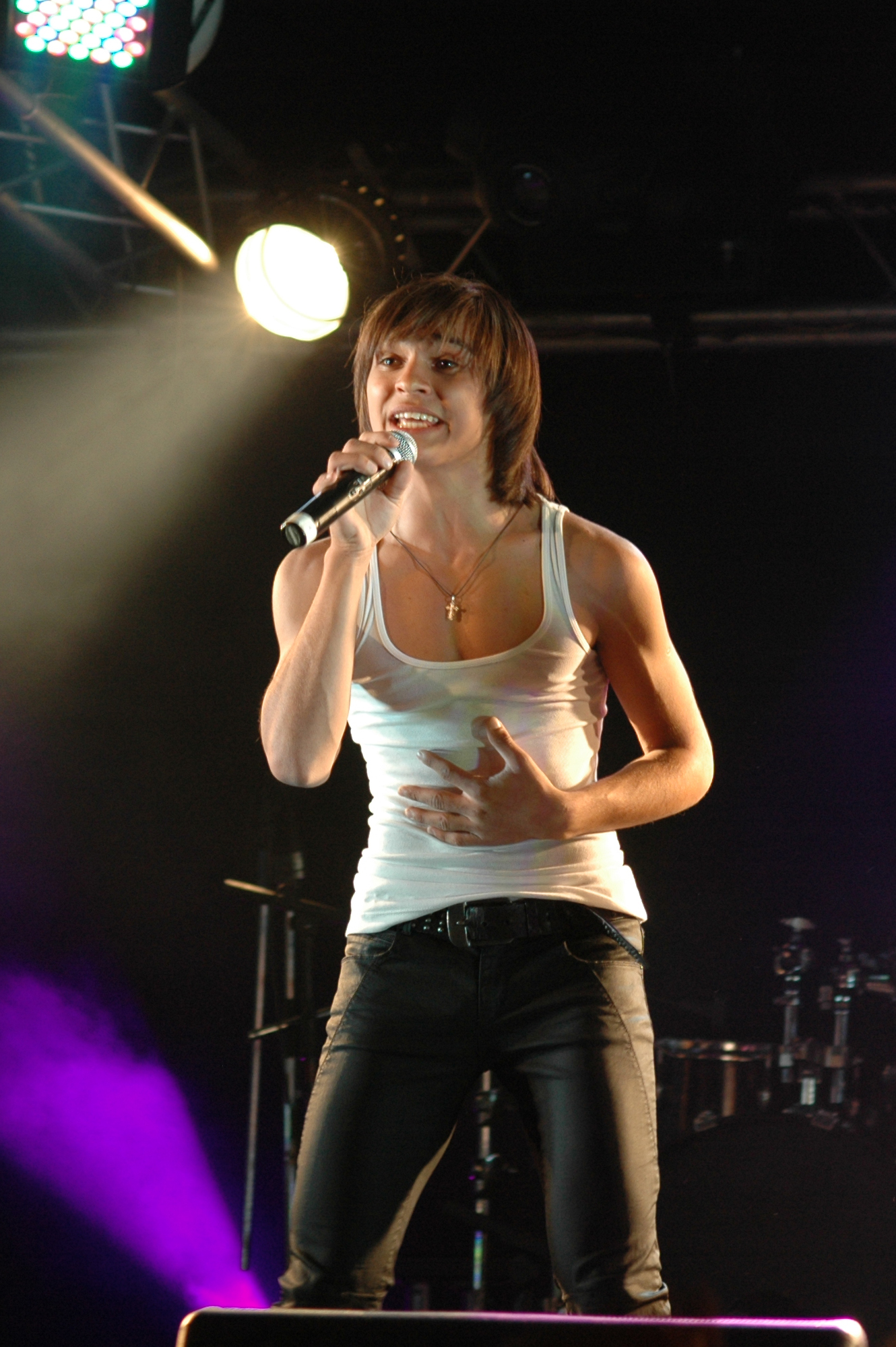 Mikhail Puntov (Geroi). Concert at "Zal Ozhidaniya" club (St-Petersburg, Russia, 2012-05-10)